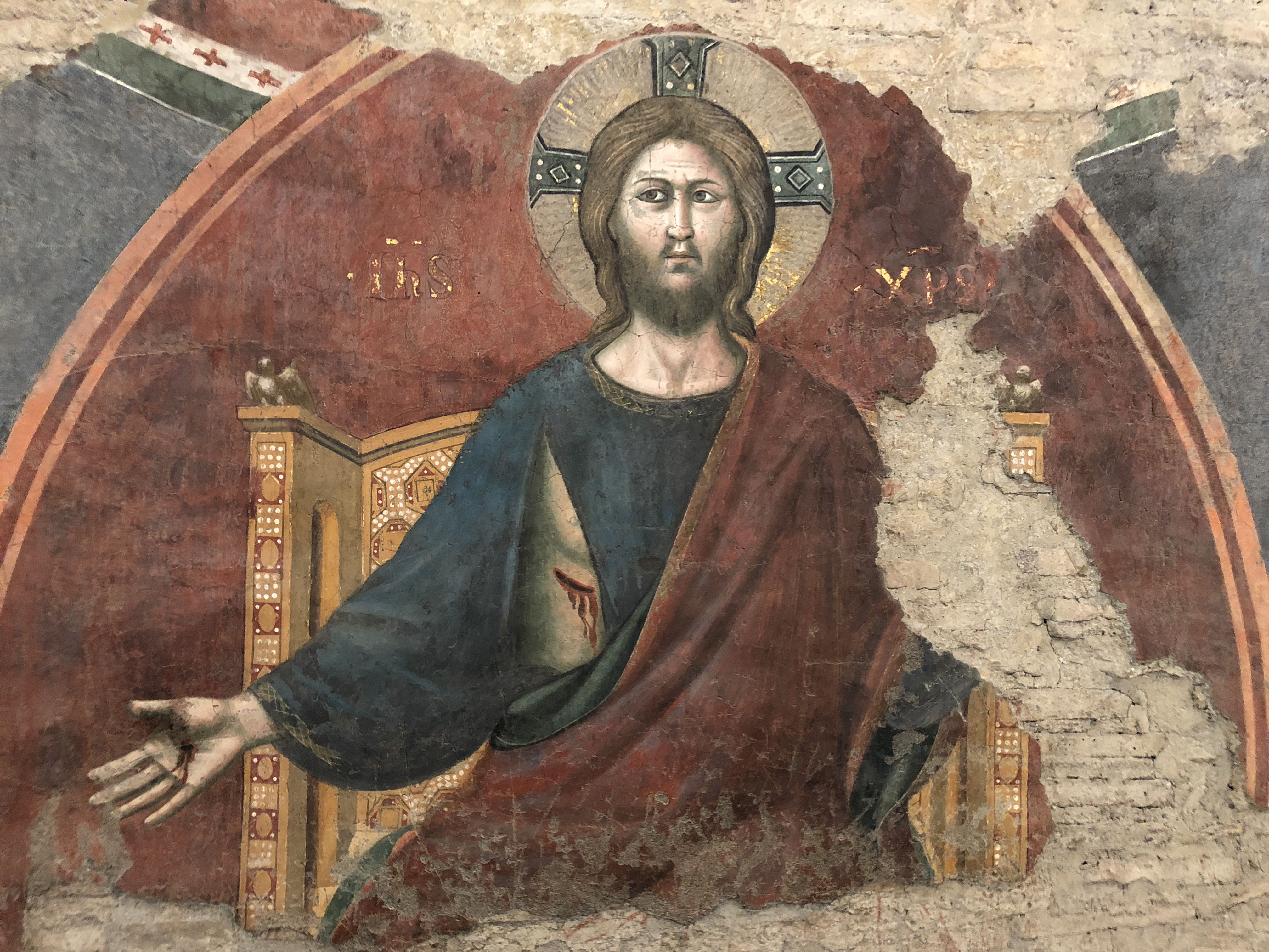 The Last Judgement (detail)